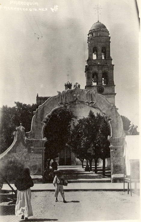 The Templo de San Francisco del siglo XVIII.